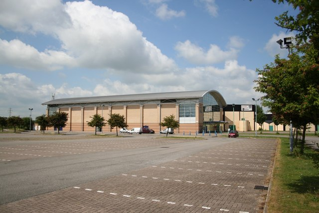 Grimsby Auditorium. Popular entertainment venue on Cromwell Road